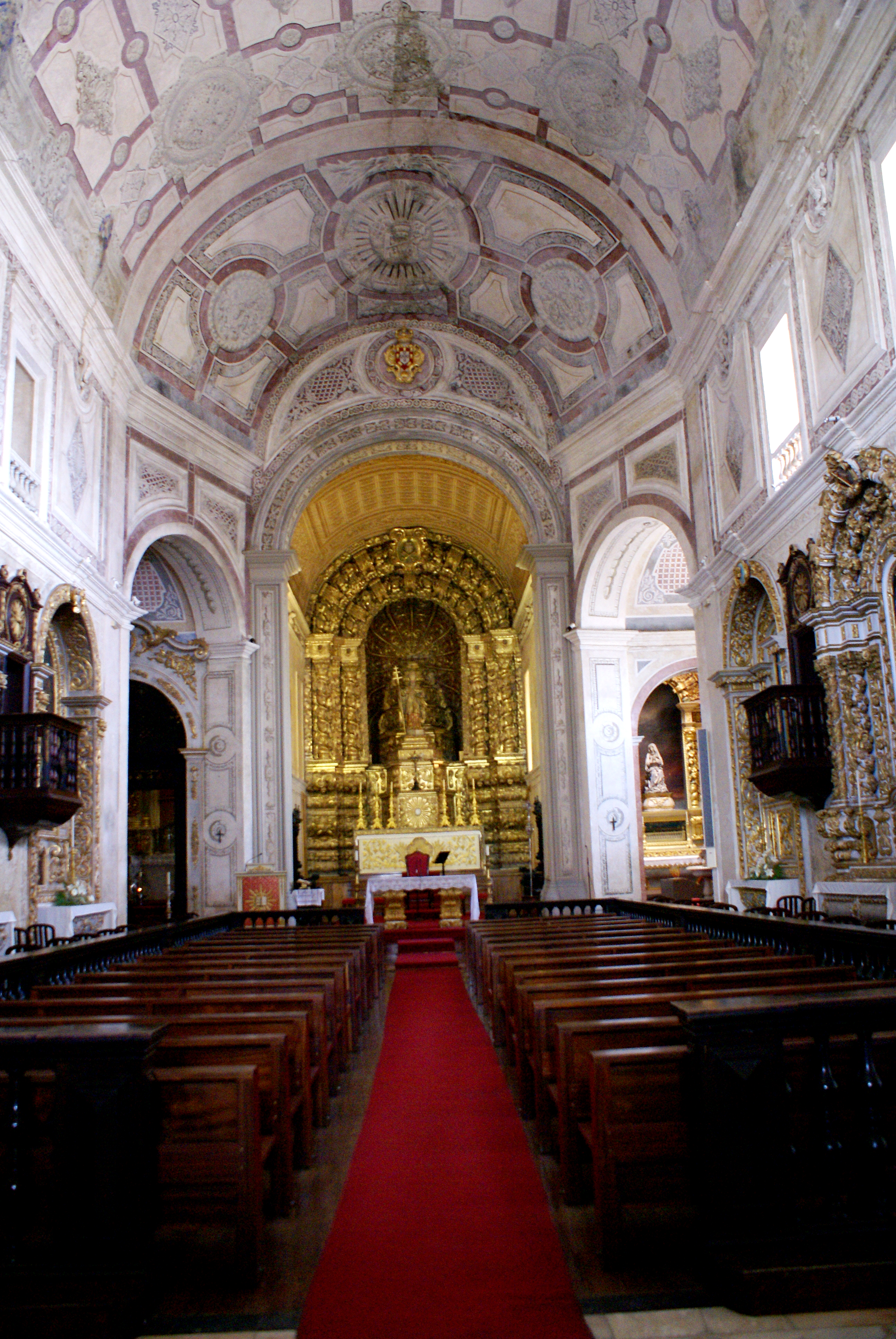 The interior of of the Church of São Pedro, São Pedro, Ponta Delgada, São Miguel (Azores), Portugal